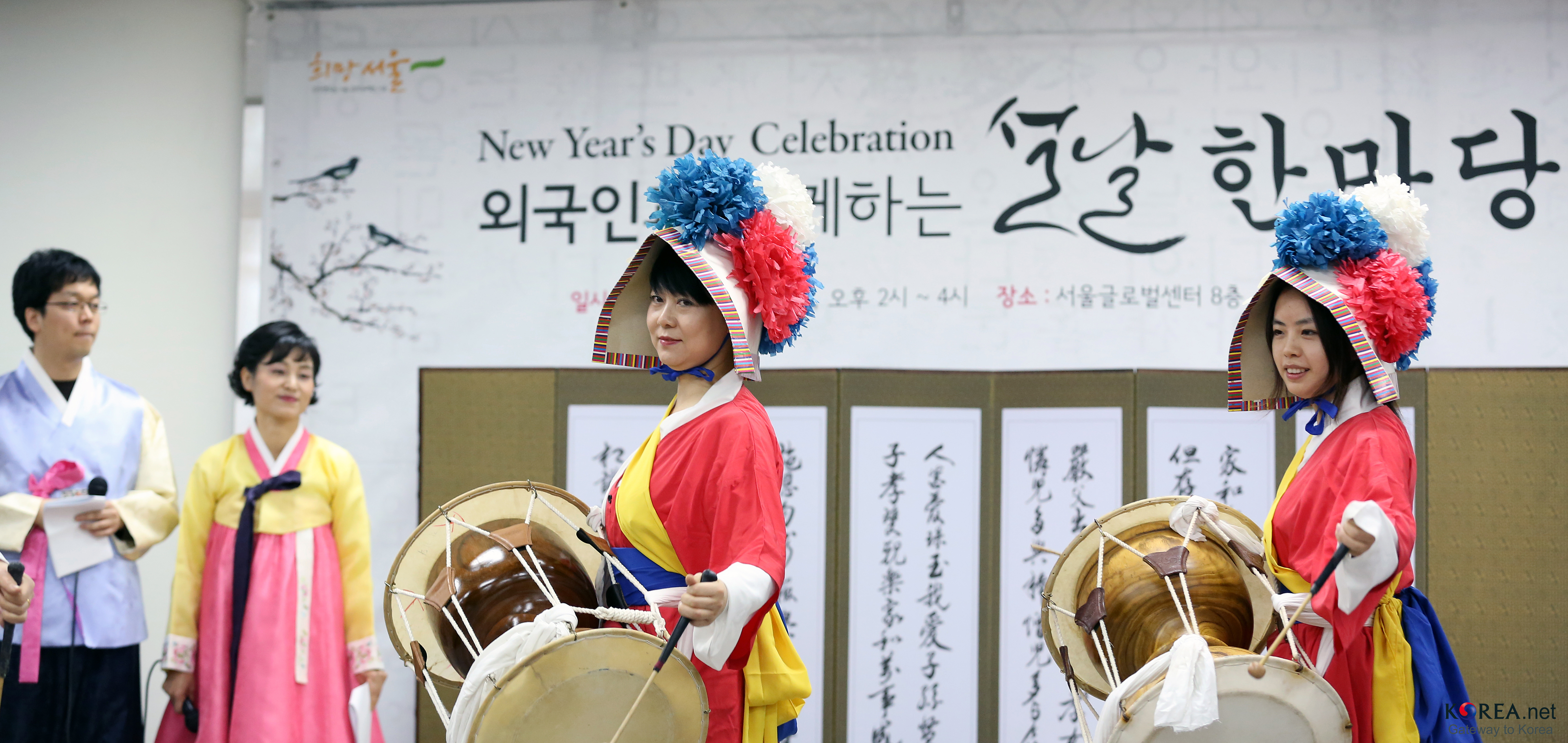 Korea Lunar New Year Festivities January 28, 2014. Seoul Global Center, Seoul Related Articles Cheong Wa Dae Lunar New Year festivities across the country -English- Lunar New Year festivities across the country -Espanol- En toda Corea, festejos con motivo del año nuevo lunar -Deutsch- Landesweite Feierlichkeiten zum Neujahrsfest nach dem Mondkalender -Francais- Festivités du Nouvel An lunaire à travers le pays -Russian- Лунный новый год празднуется по всей стране Ministry of Culture, Sports and Tourism Korean Culture and Information Service ( JEON HAN 설날 맞이 행사 2014-01-28 서울글로벌센터, 서울 문화체육관광부 해외문화홍보원 코리아넷 전한